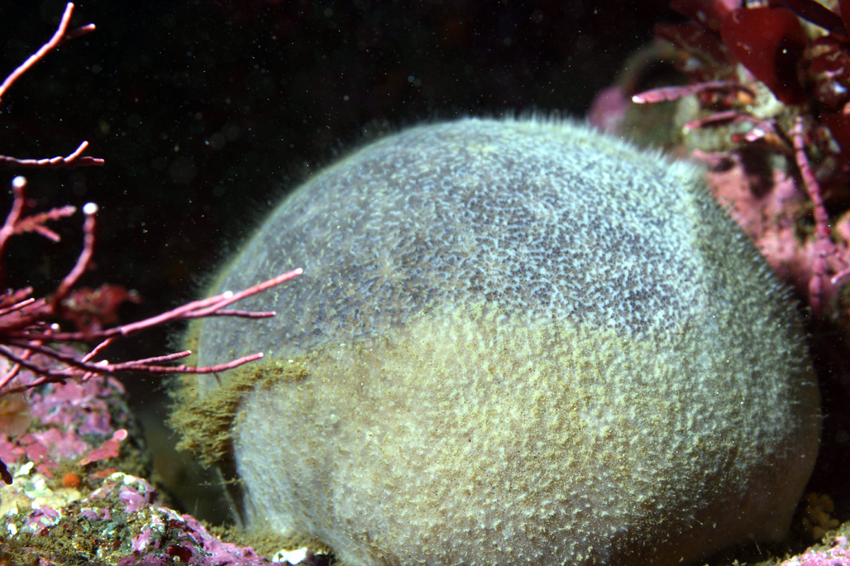 Orange puffball sponge Tethya aurantia. No it looks like the Gray Puffball Sponge Craniella arb